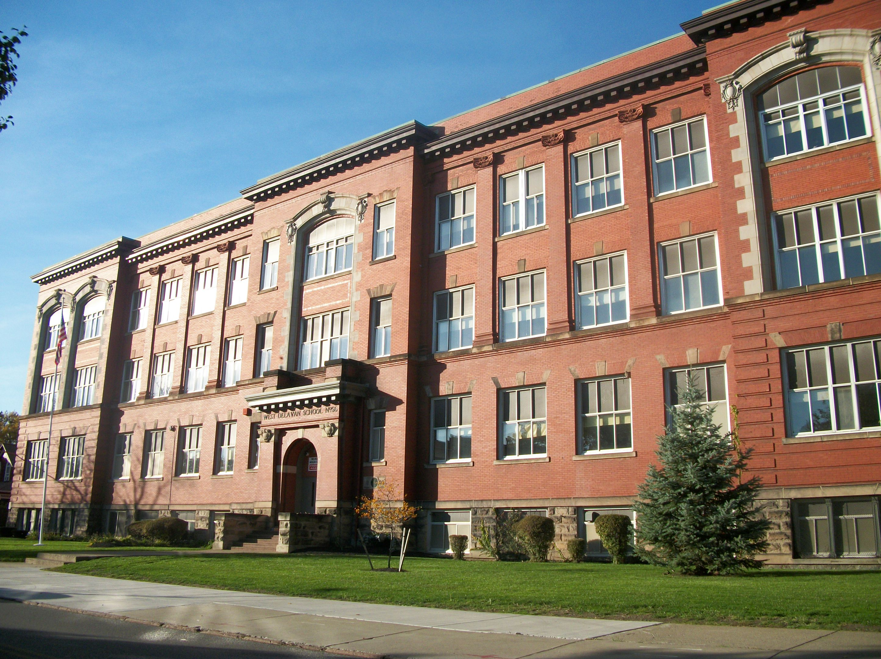 P.S. 56 716 West Delavan Avenue Buffalo, NY 14222